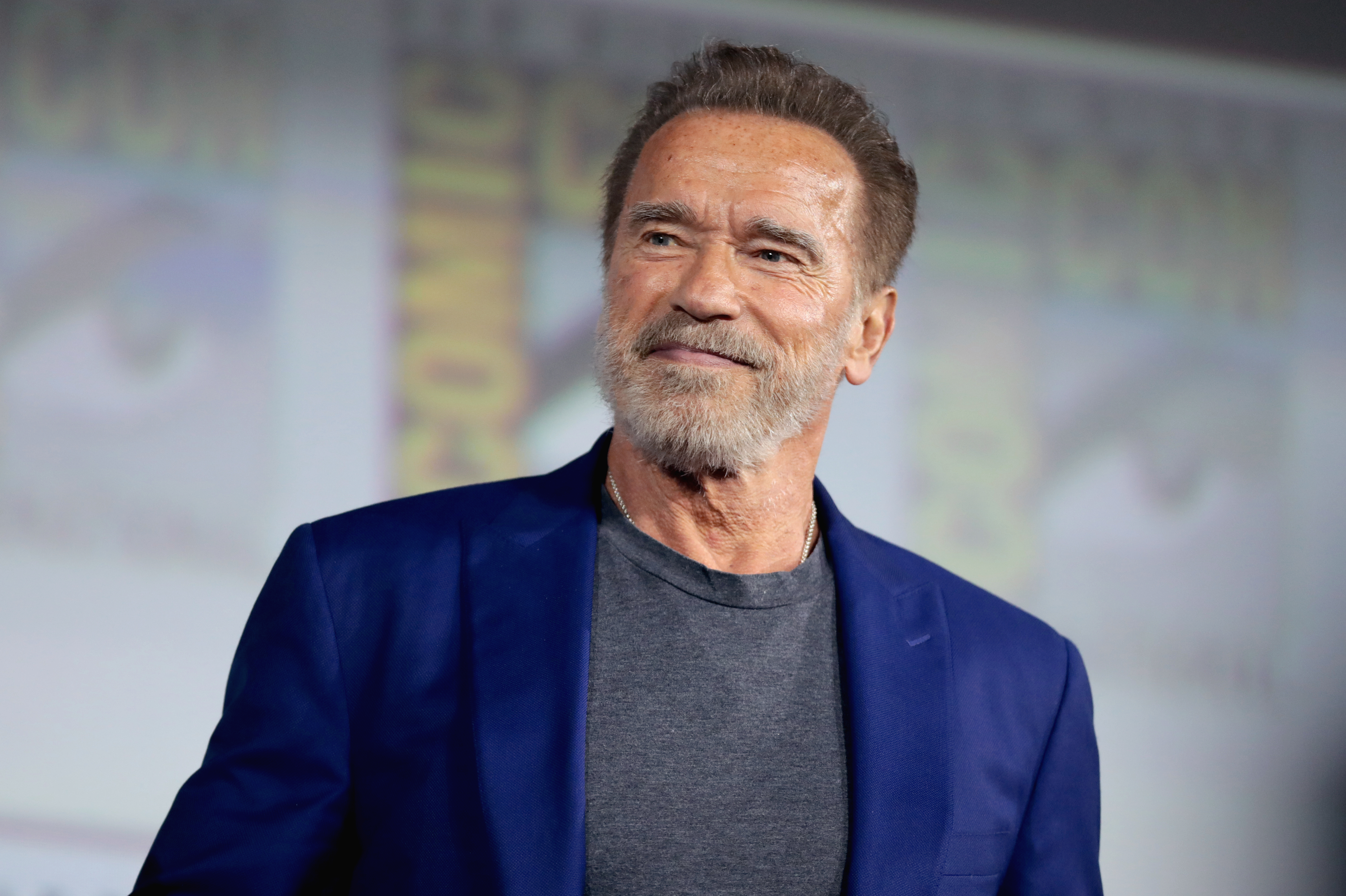 Arnold Schwarzenegger speaking at the 2019 San Diego Comic Con International, for "Terminator: Dark Fate", at the San Diego Convention Center in San Diego, California.